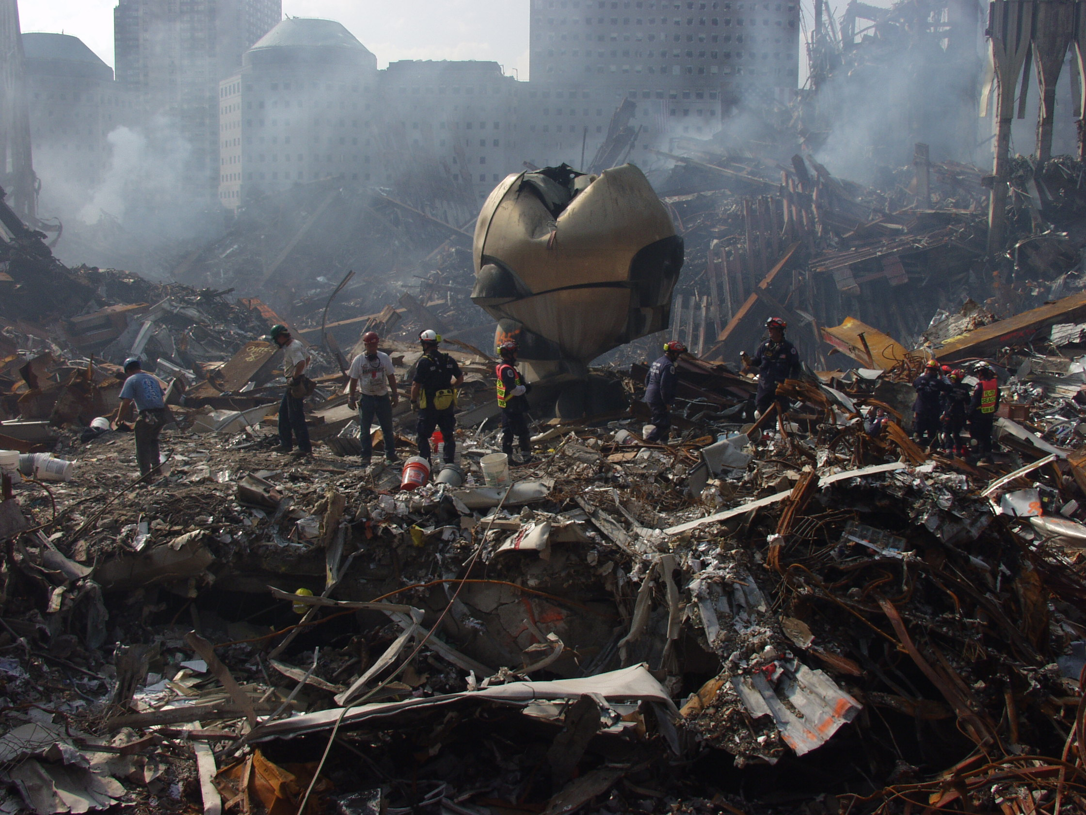 New York, NY, September 21, 2001 -- Rescue crews work to clear debris from the site of the World Trade Center. Photo by Michael Rieger/ FEMA News Poto